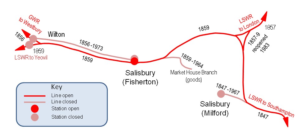 A map showing the railways around Salisbury, Wilsthire, England. It includes dates of opening and closure.